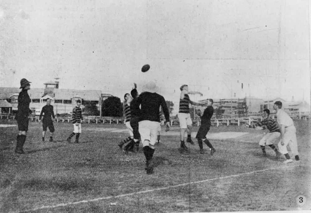 Australian Football Premiership Finals, Brisbane, Queensland, 1907 Australian Football Premiership Finals, at the Brisbane Cricket Ground in Brisbane, 1907. Umpire is on the field with the players from both teams where a final mark by Watson, the captain of the Locos, is in play.